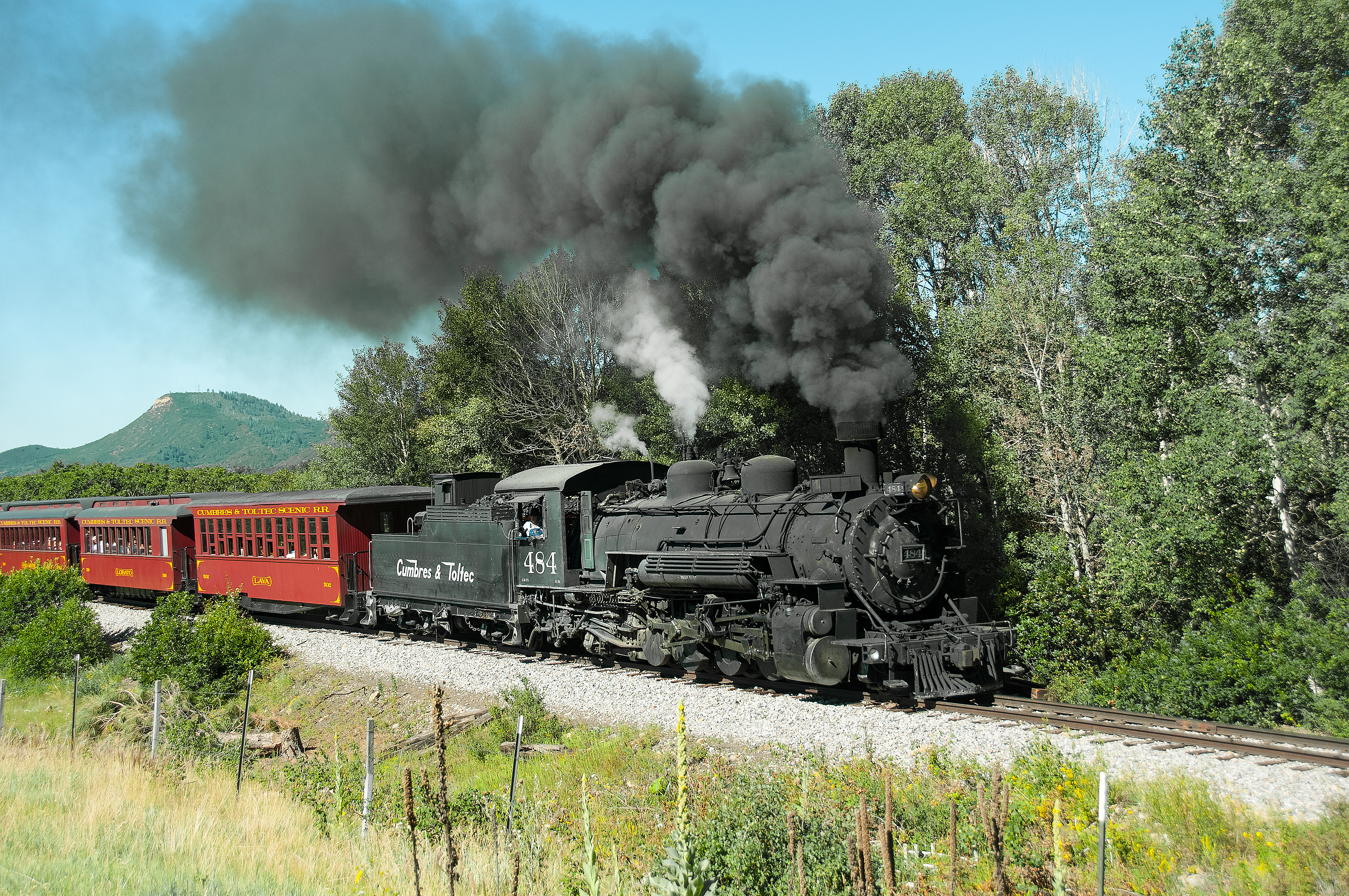 Cumbres & Toltec Scenic Railroad excursion train headed by locomotive 484, approaching "The Narrows" east of Chama, New Mexico, U.S.A.